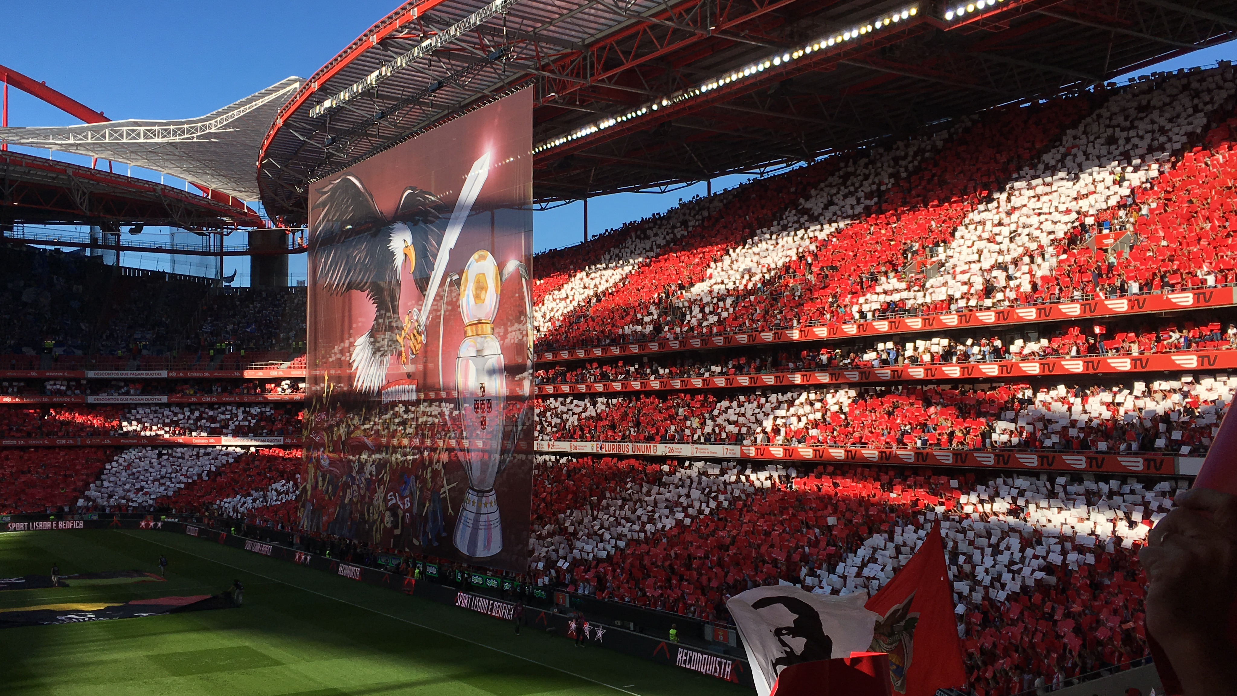 The Benfica Fans with a tifo before a game against FC Porto